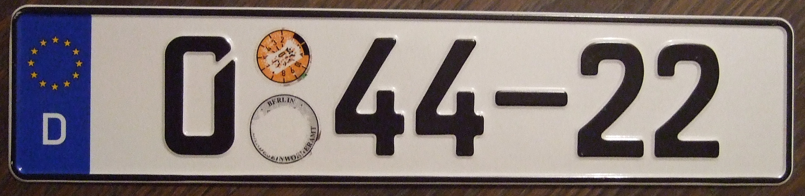 Diplomatic plates in Germany have a "0" prefix and a a two digit code in this case "44" which denotes the Finnish embassy with the serial number '22" after the dash.